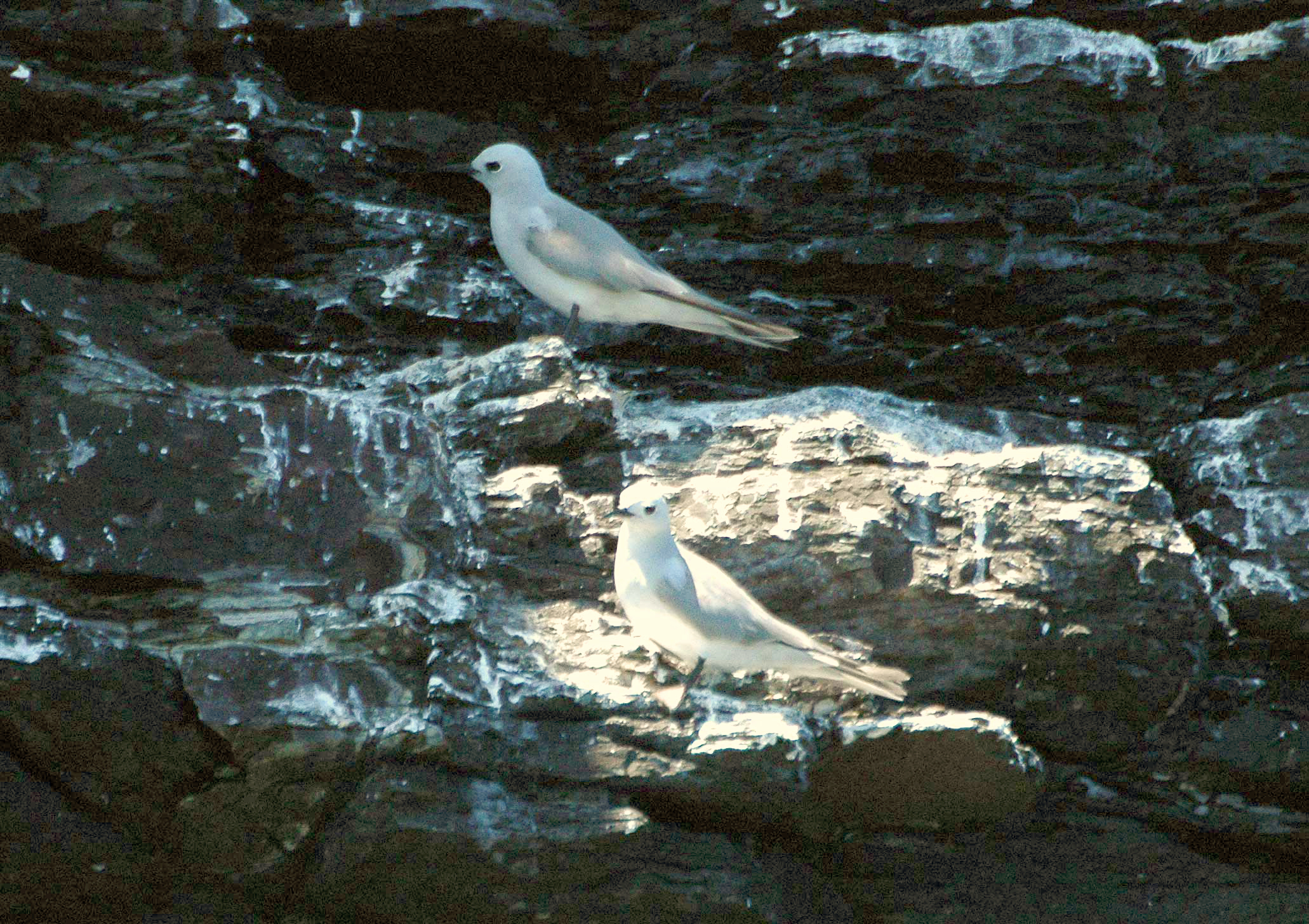 Grey Noddy (Anous albivitta), Mokohinau Islands, New Zealand